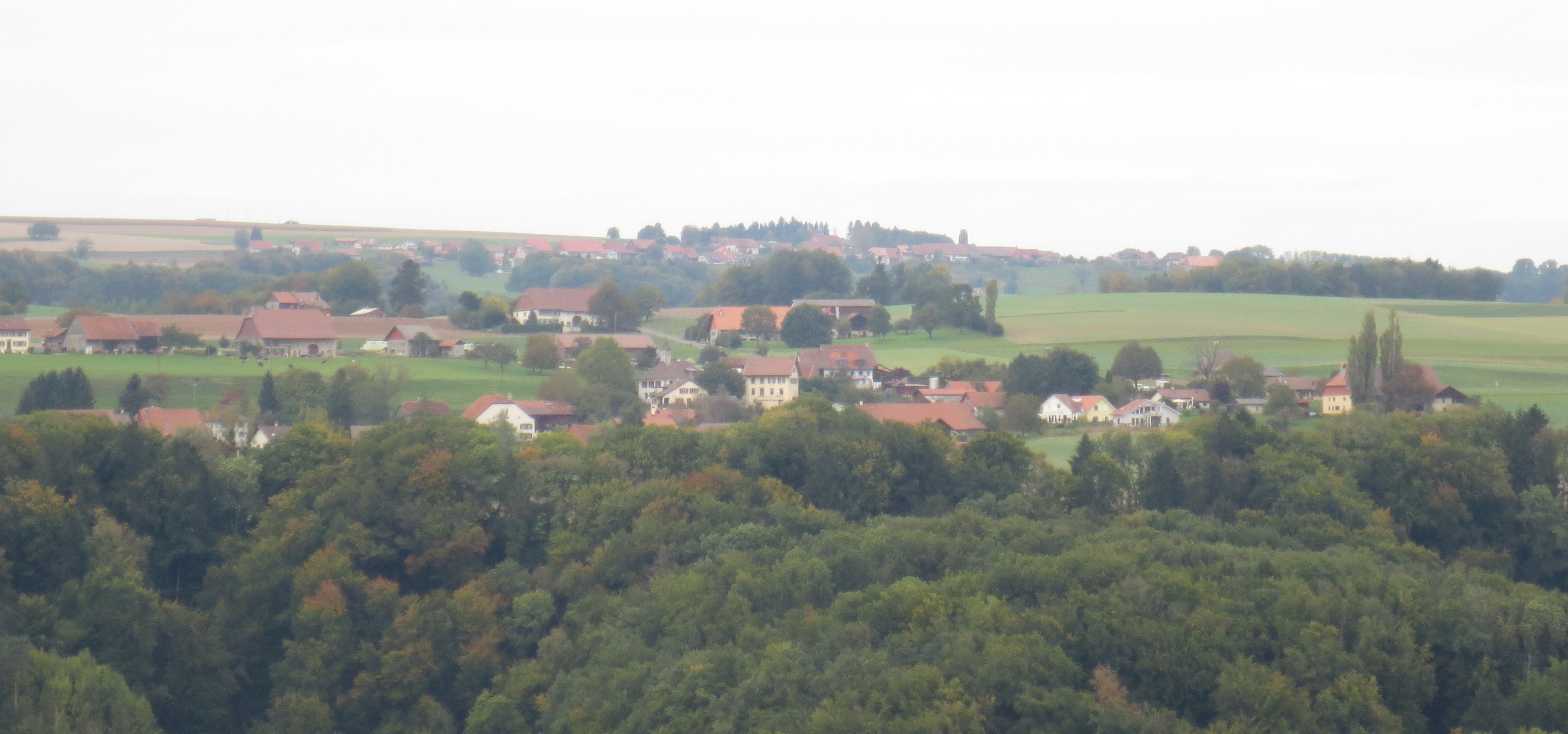 Bussy-sur-Moudon, Switzerland